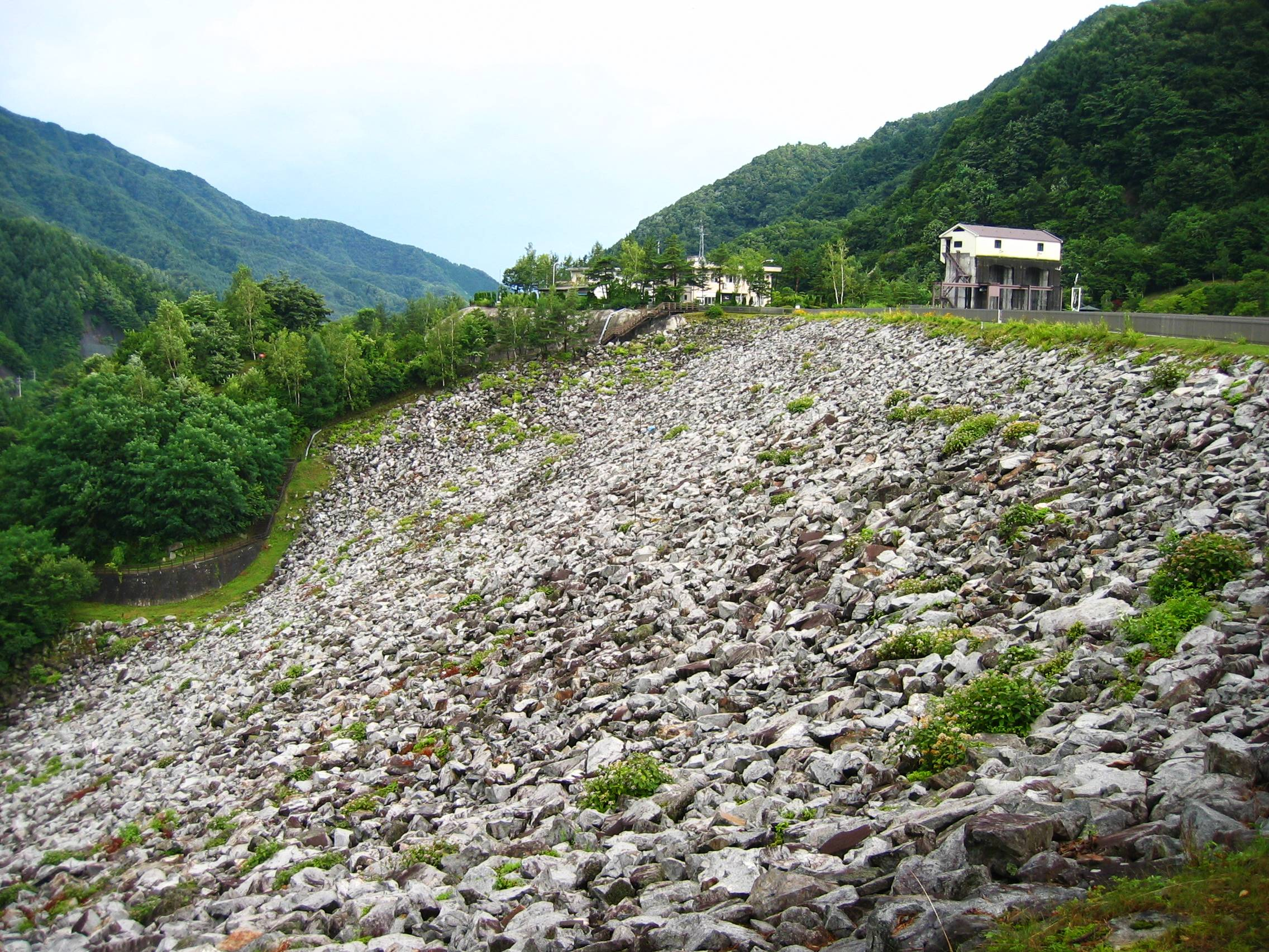 Hirose Dam.